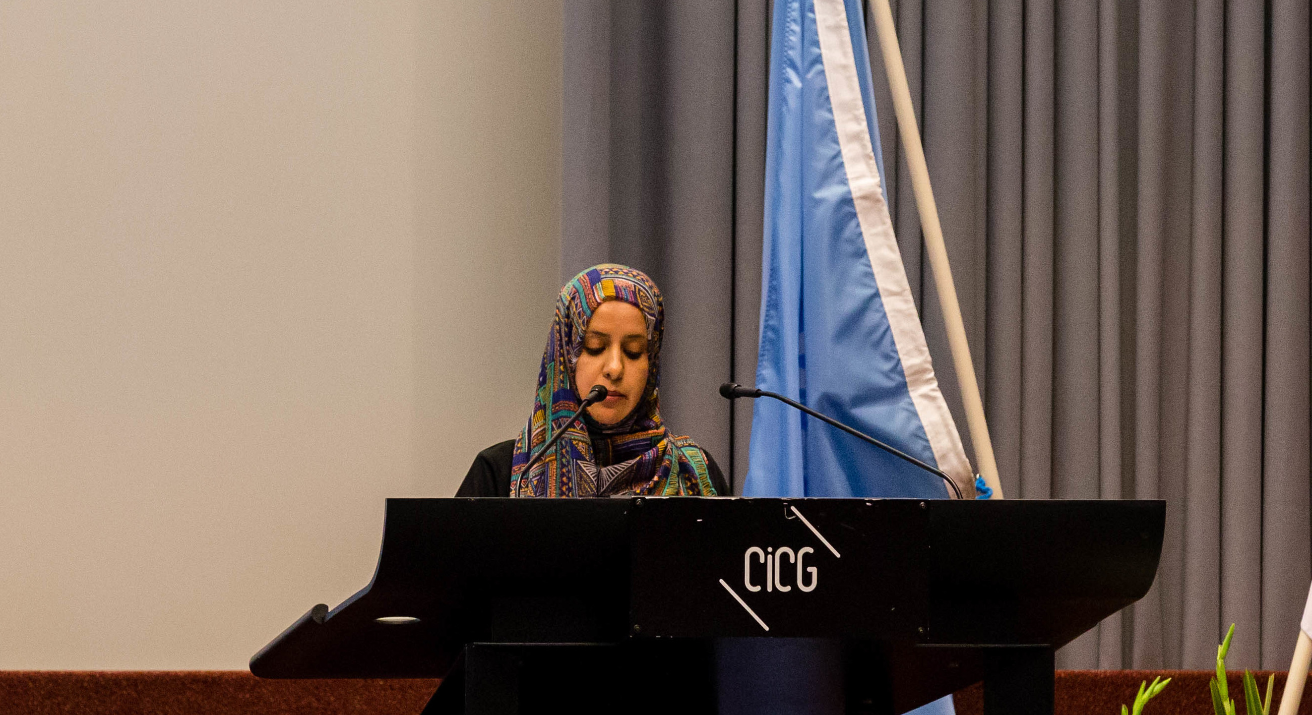 CSP 2017, day 1 11th September 2017 Radhya al-Mutawakel, of Mwatana Organization for Human Rights Photo: Control Arms/Ralf Schlesener